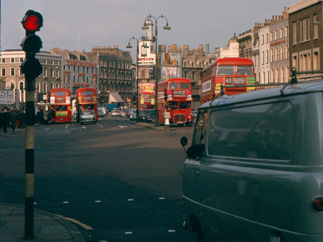 Corner of St Pancras Road - Euston Road.